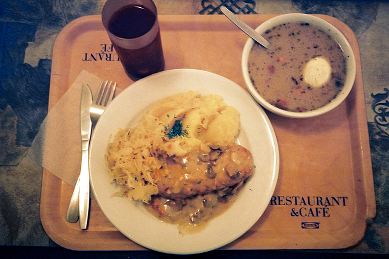 the "milk bar" is a Communist-style cafeteria that serves cheap and delicious food